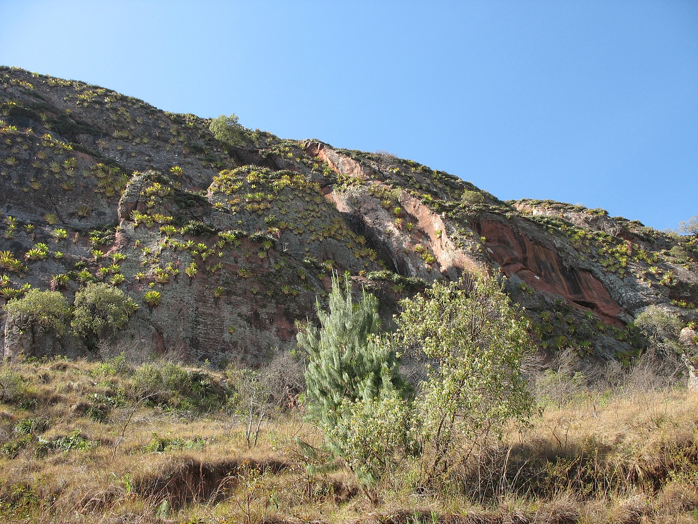 Tillandsia australis, in habitat in Bolivia, El Fuerte de Samaipata.